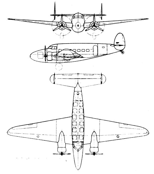 Lockheed 14-H 3-view drawing from L'Aerophile October 1937